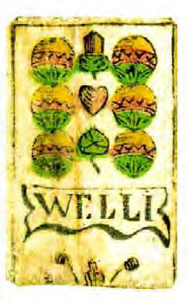 Ältester bekannter Weli 1830-35